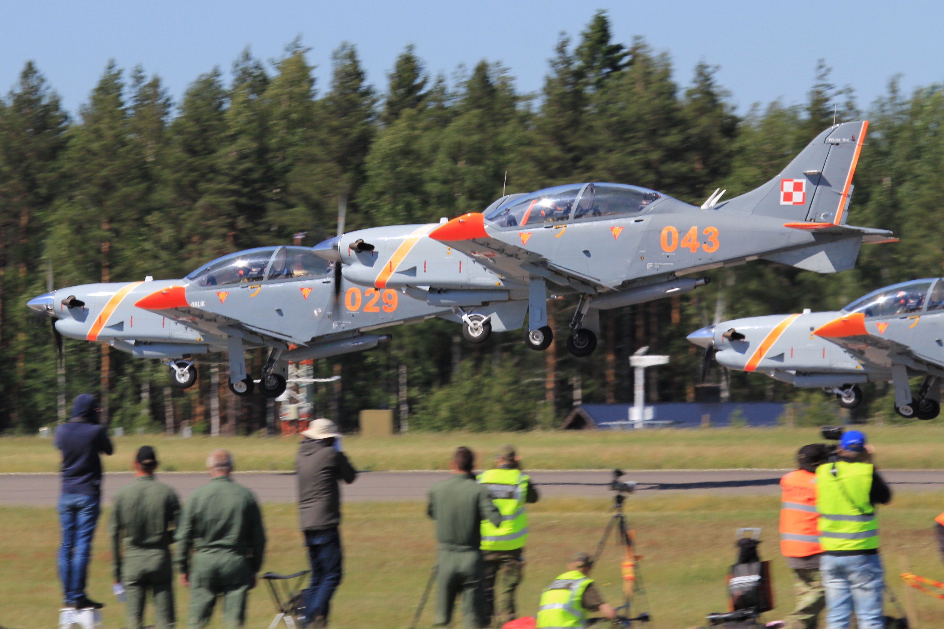 Polish Air Force aerobatic team Orlik, performing June 16th 2019 at Turku International Airshow, Turku Airport, Finland.